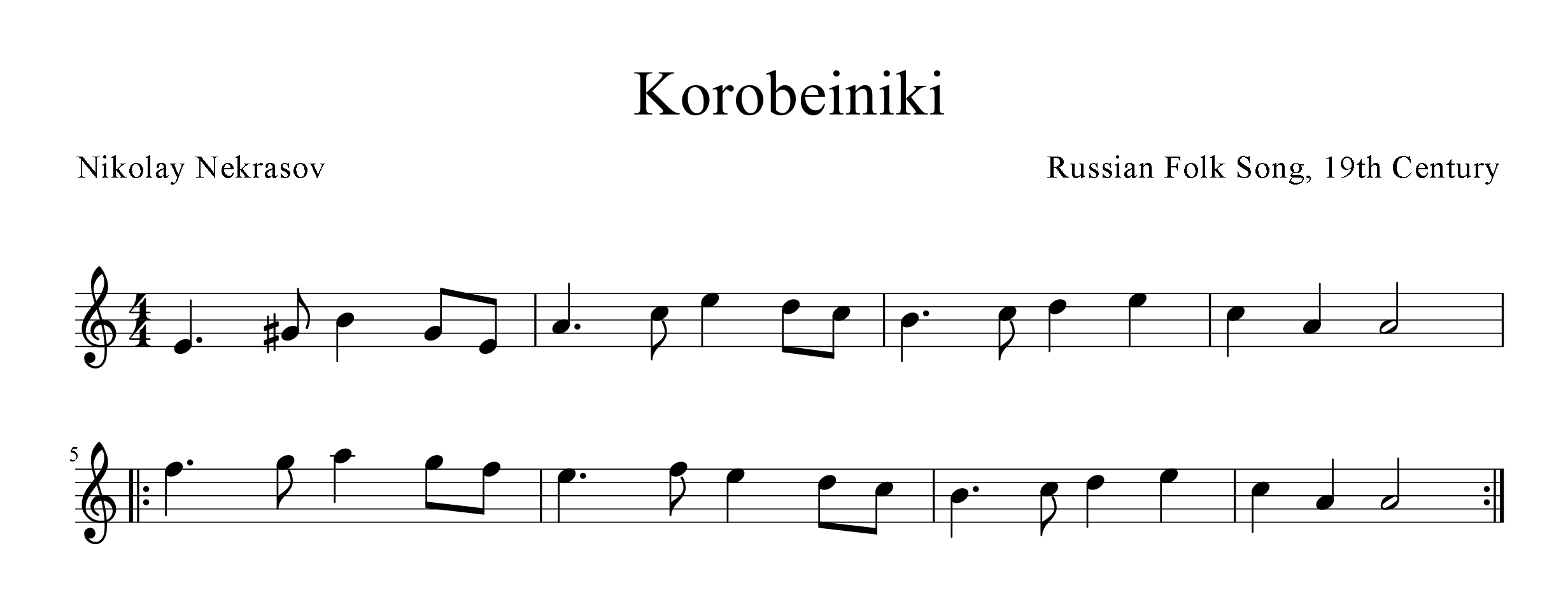 Simple arrangement of the 19th century Russian folk song "Korobeiniki" (The Paddlers)